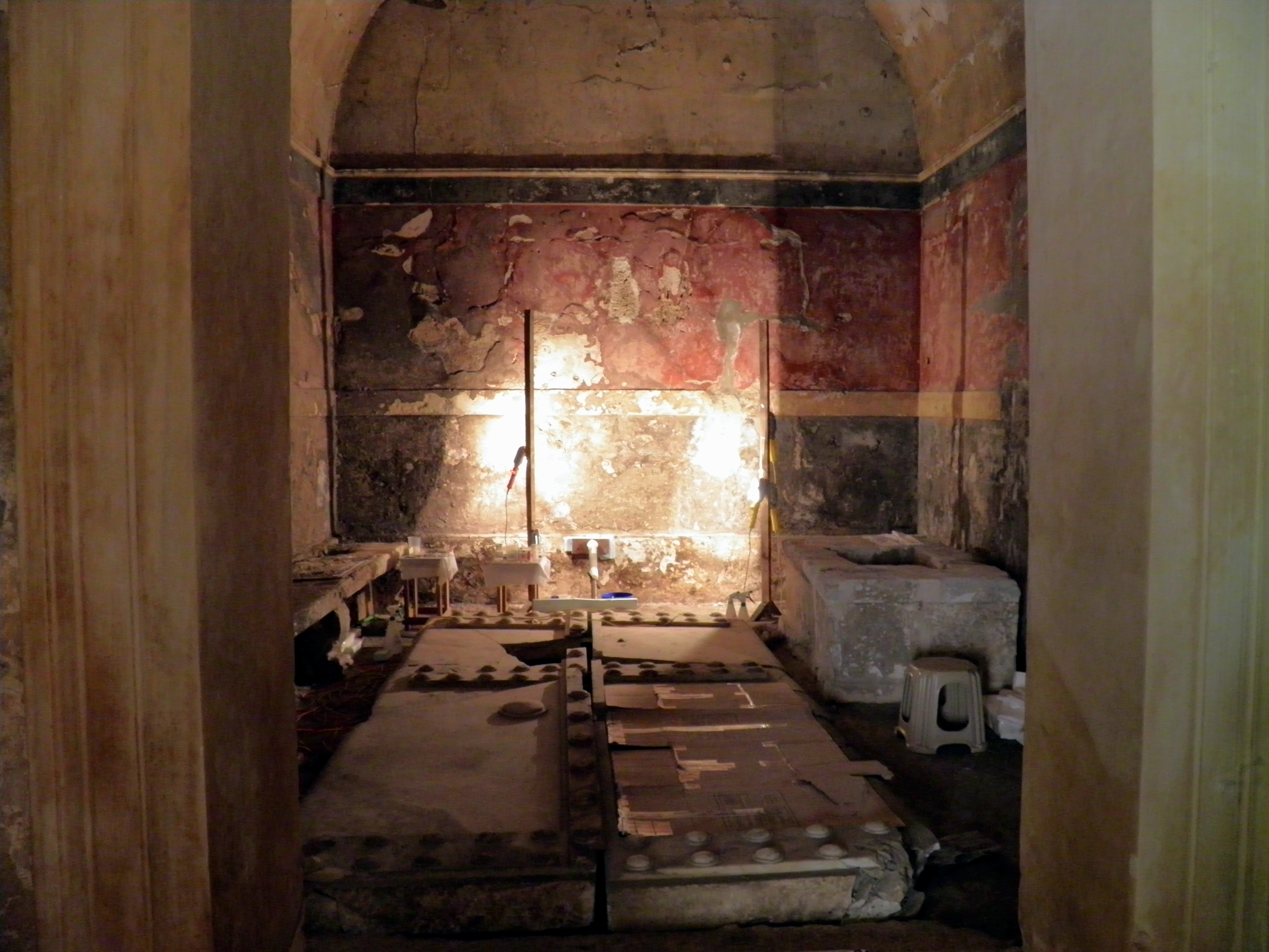 A fine marble doorway leads from the antechamber to the main burial chamber. The leaves of the large marble door had relief decoration imitating a real woden door. They have collapsed on the ground after disintegration of the metal mechanism. Nevertheless, there are enough remains and elements to shed light on how the door leaves were supported and how the mechanism of the lock functioned. On the west side of the chamber is a long bench built of poros, possite which, on the east wall, is a built rectangular structure. This has an opening in the centre to hold a metal or wooden box or a metal vase containing the remains for the cremation of the dead person (bones-ashes) which had been conducted outside the tomb. The outer sides of the chest, which was covered with a schist slab, are decorated with painted olive branches. The walls are monochrome. The lower part imitates marble revetment and is painted black; it is separated by a white relief cornice from the upper dard red section, while from the springing of the vault upwards teh entire ceiling is covered by light yellow plaster. The tomb had been robbed on many occasions, mainly during antiquity; holes were opened in the roof by removing voussoirs, and this led to the accumulation of large quantities of earth inside the tomb. Very few portable find survived, in fragments, though they are sufficient to indicate how rich were the offerings originally placed in the tomb.